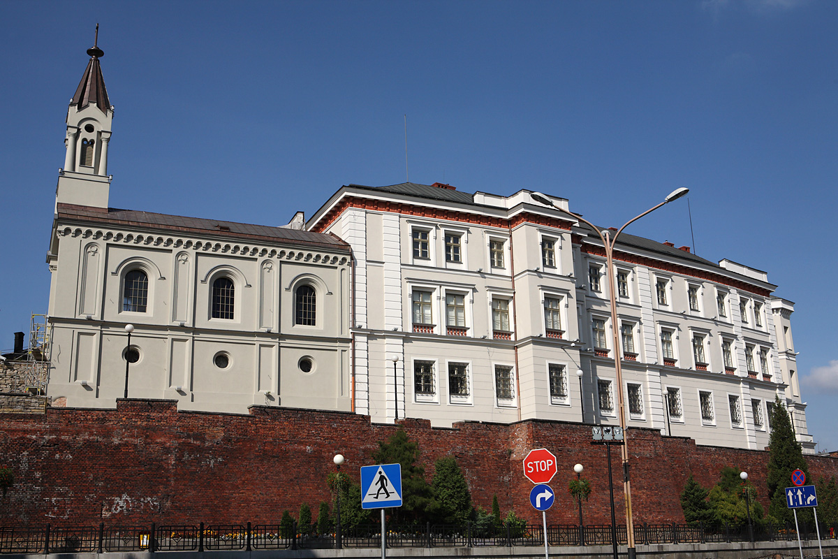 Sułkowski Castle in Bielsko-Biała. View from Castle Street.